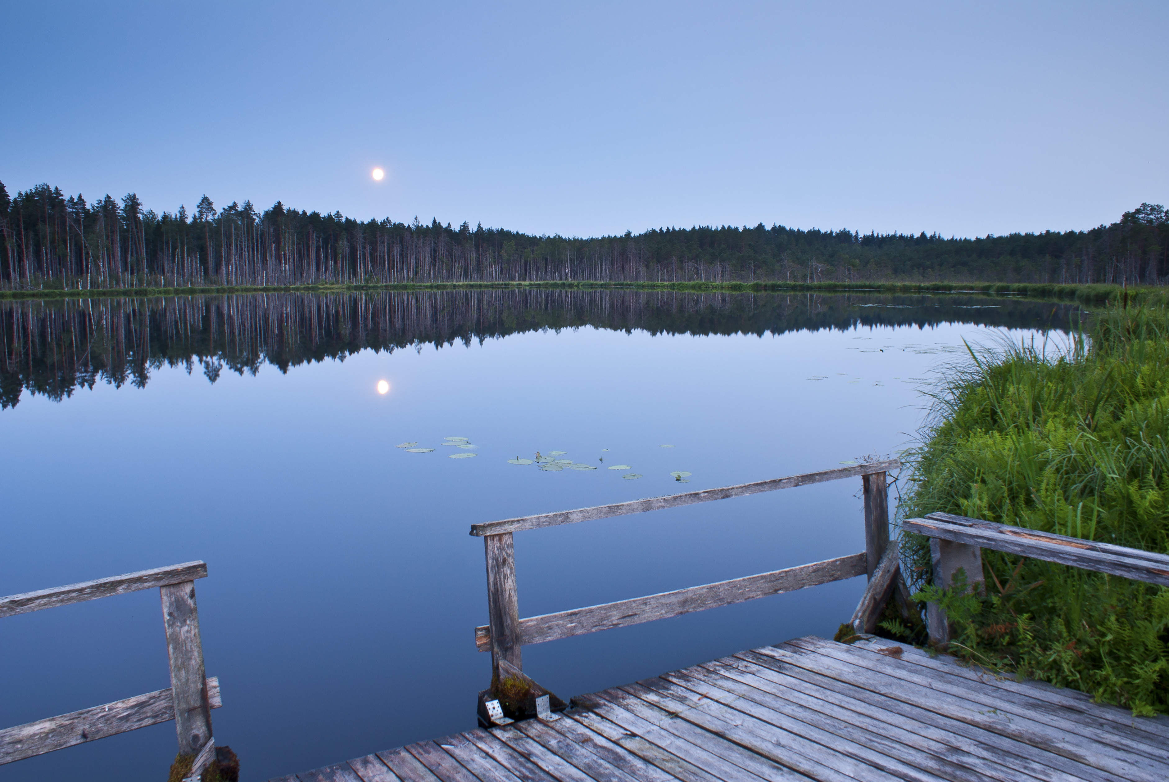 Lake Alatsi in Teringi bog in the southern part of Viljandi County, Estonia.